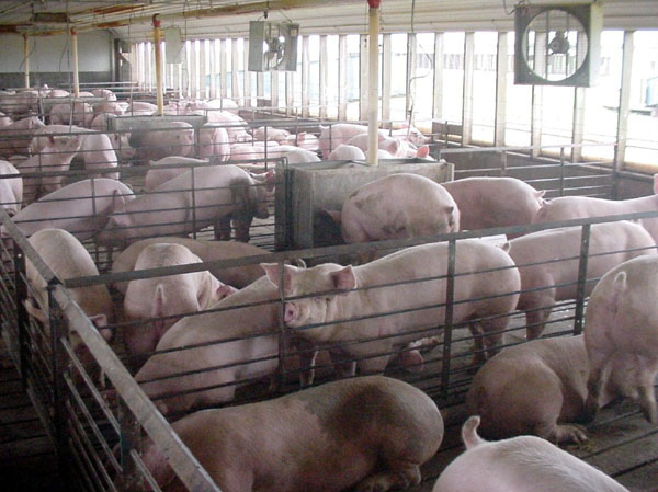 pigs in CAFO (concentrated animal feed operation)